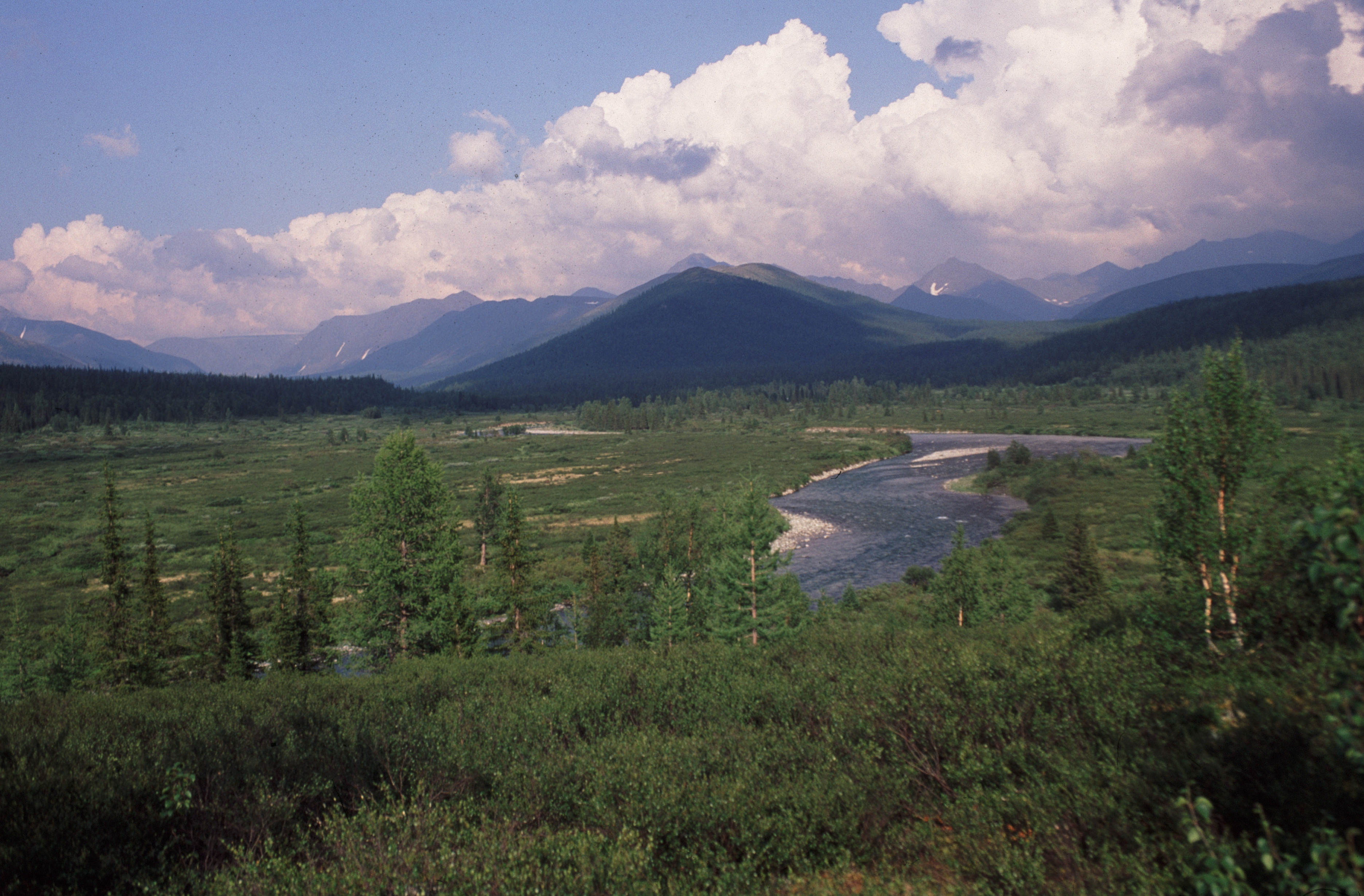 Picture taken on a summerhike of belgian hiking club called JNM tomato boys